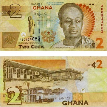 2 Ghana Cedis banknote